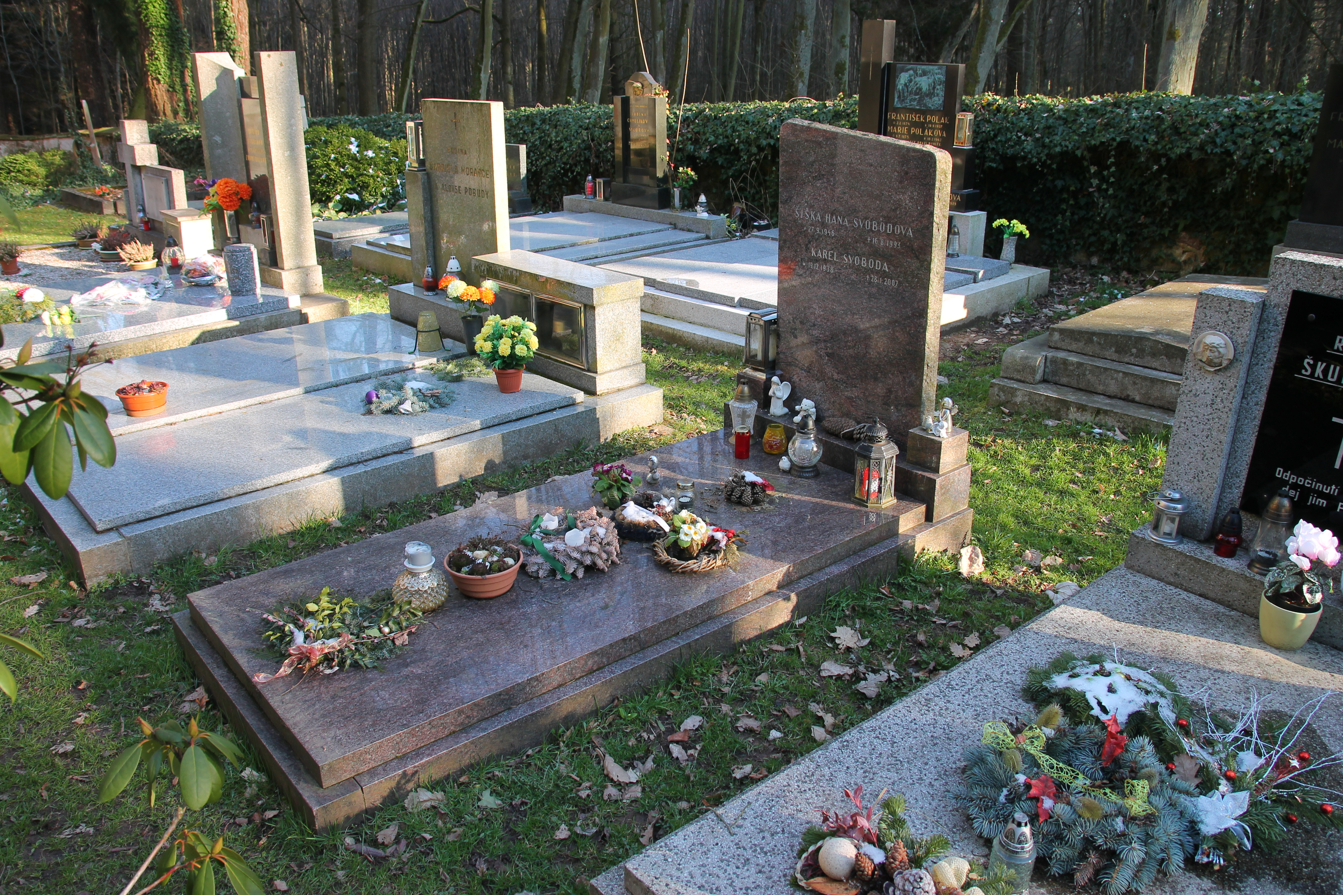 Aldašín